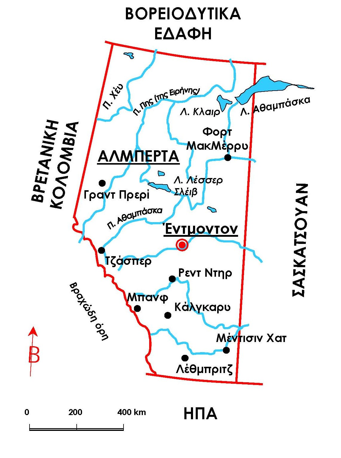 Map of Alberta, Canada